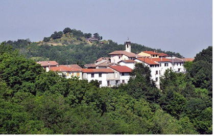 Panorama of Albarasche, a village that belongs to the municipality of Stazzano, province of Alessandria